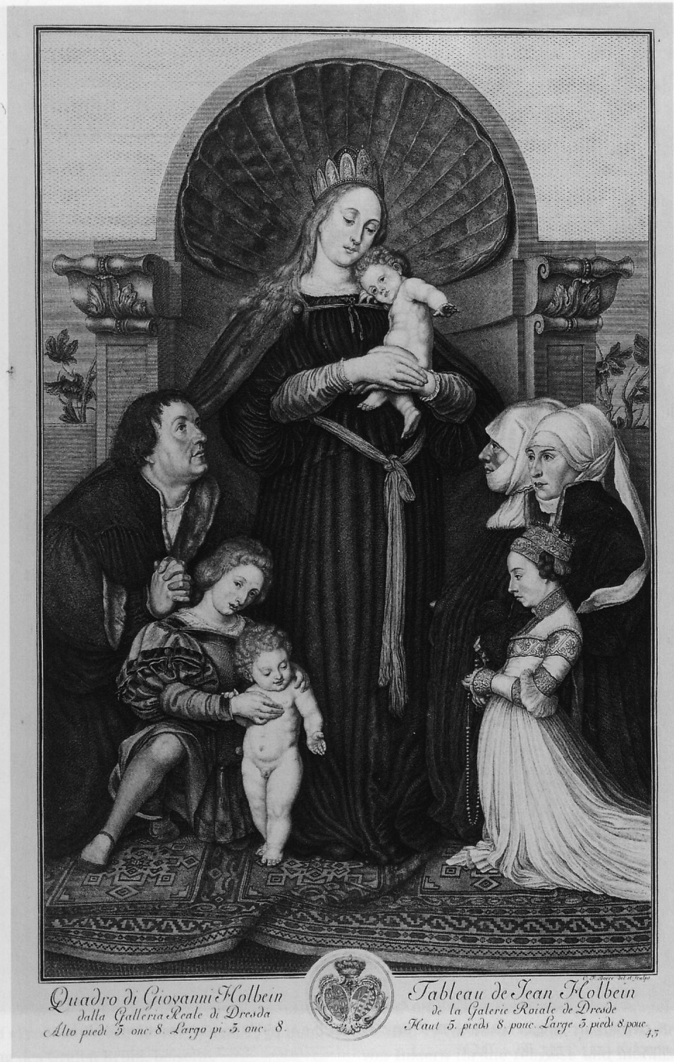 Copperplate engraving of the Dresden Madonna, as it later turned out only a copy of Hans Holbein the Younger's Madonna.